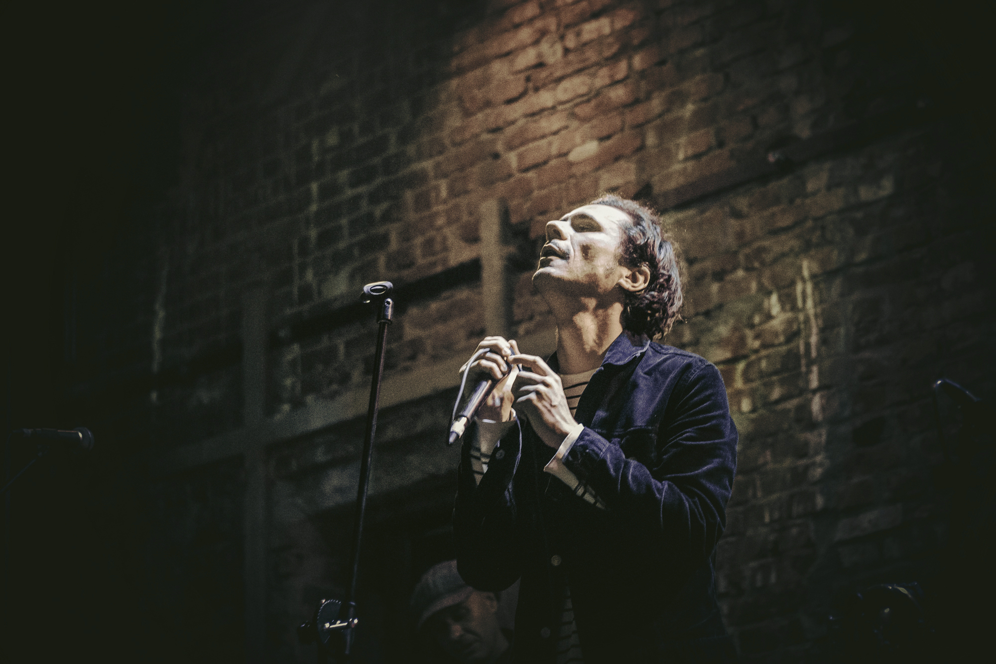 Kumm's frontman Cătălin Mocan at the band's comeback gig June 1st, 2017 [Caritabil Fest, Expirat]